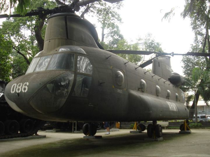 Images of the Vietnam War, several decades later. Taken by Daniel Hills in Vietnam during a trip in Summer 2012.